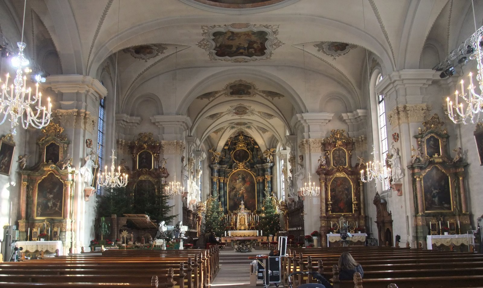 Main aisle of St. Margarethen church in Waldkirch, Germany.